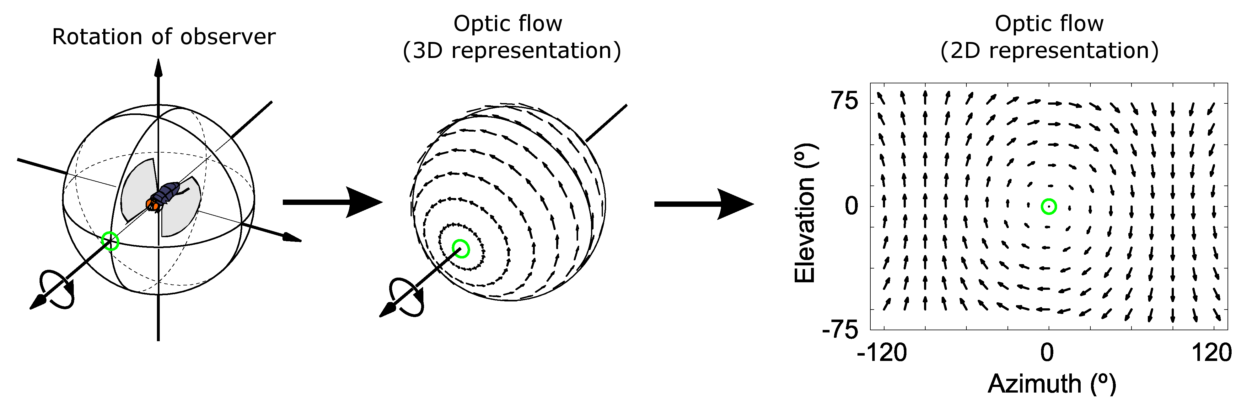 Example of optic flow experienced by a rotating observer.